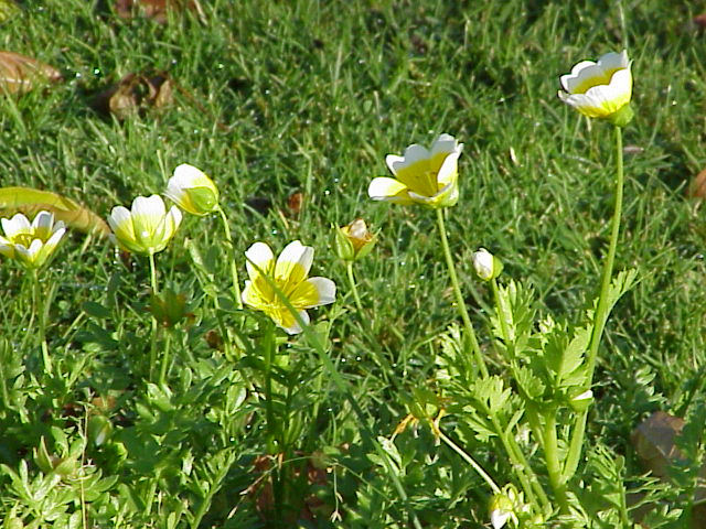 Species: Limnanthes douglasii Family: Limnanthaceae Image No. 1